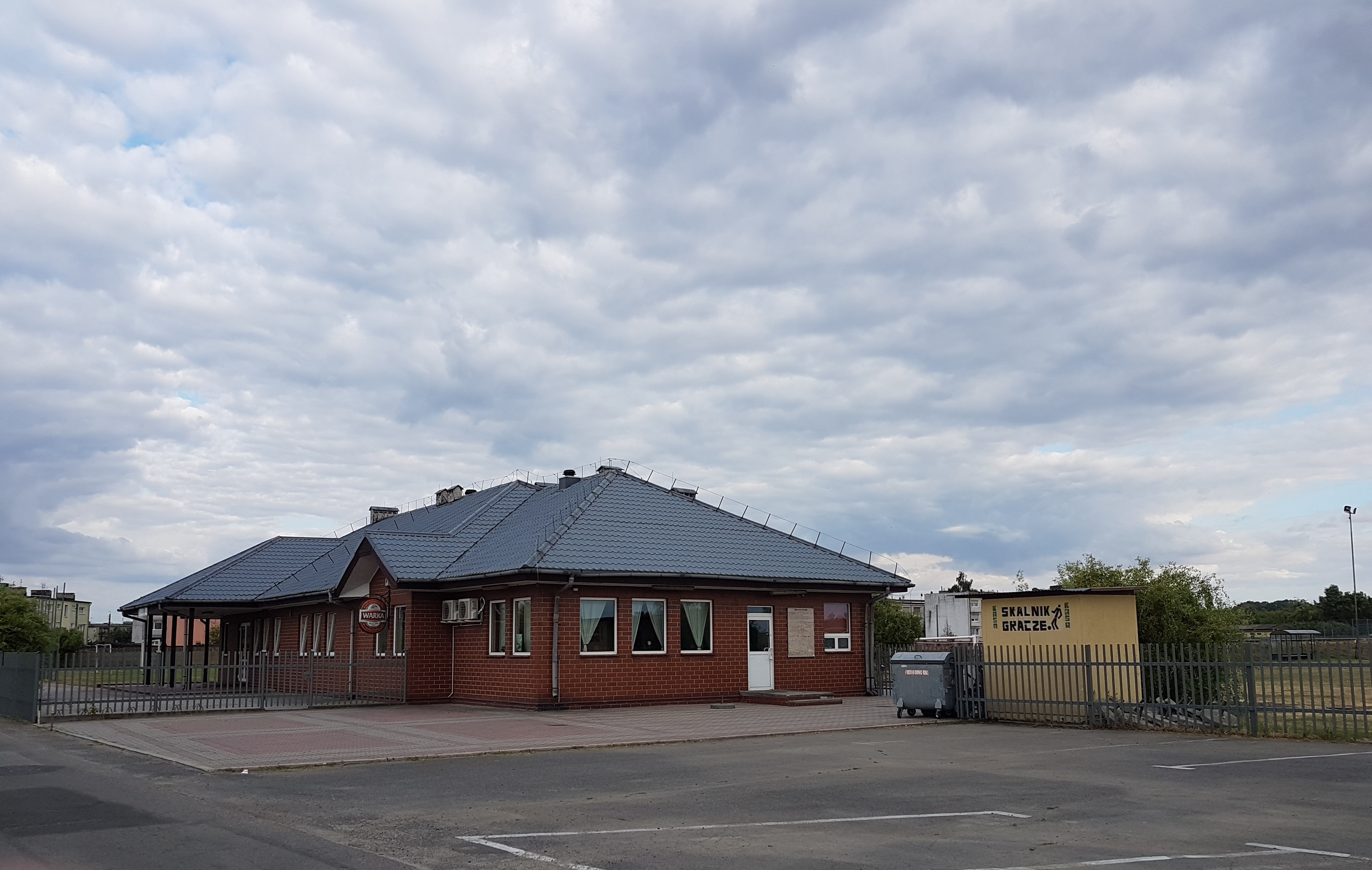 Stadium of Skalnik Gracze soccer club in Gracze, near Opole, Poland